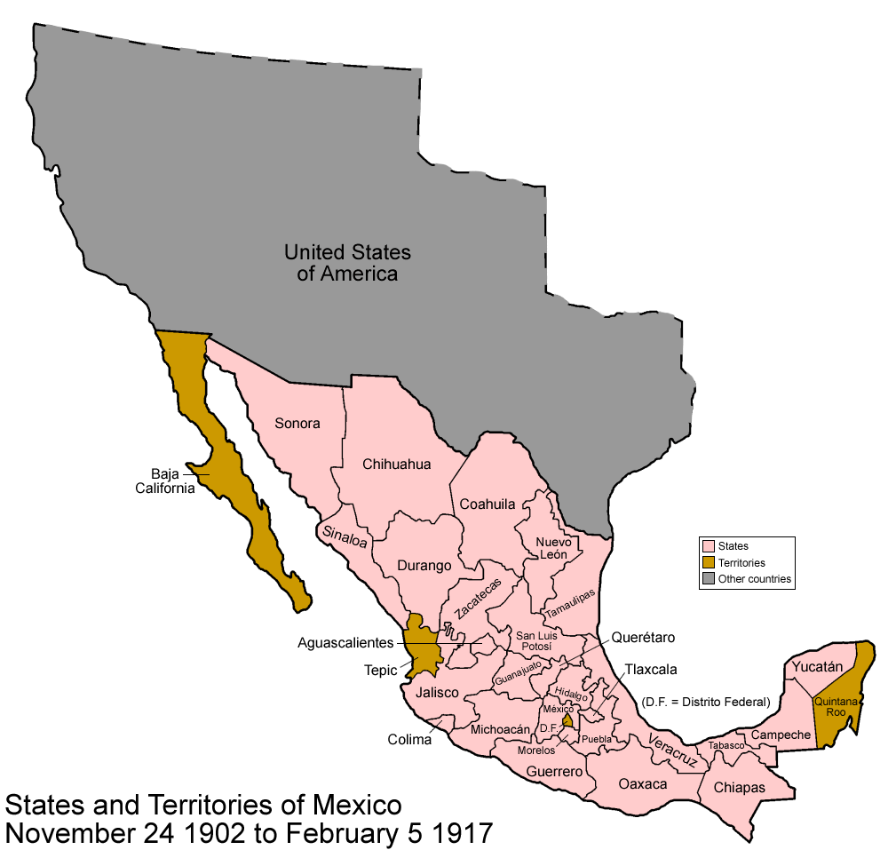 Map of the states and territories of Mexico as they were from 1902 to 1917.